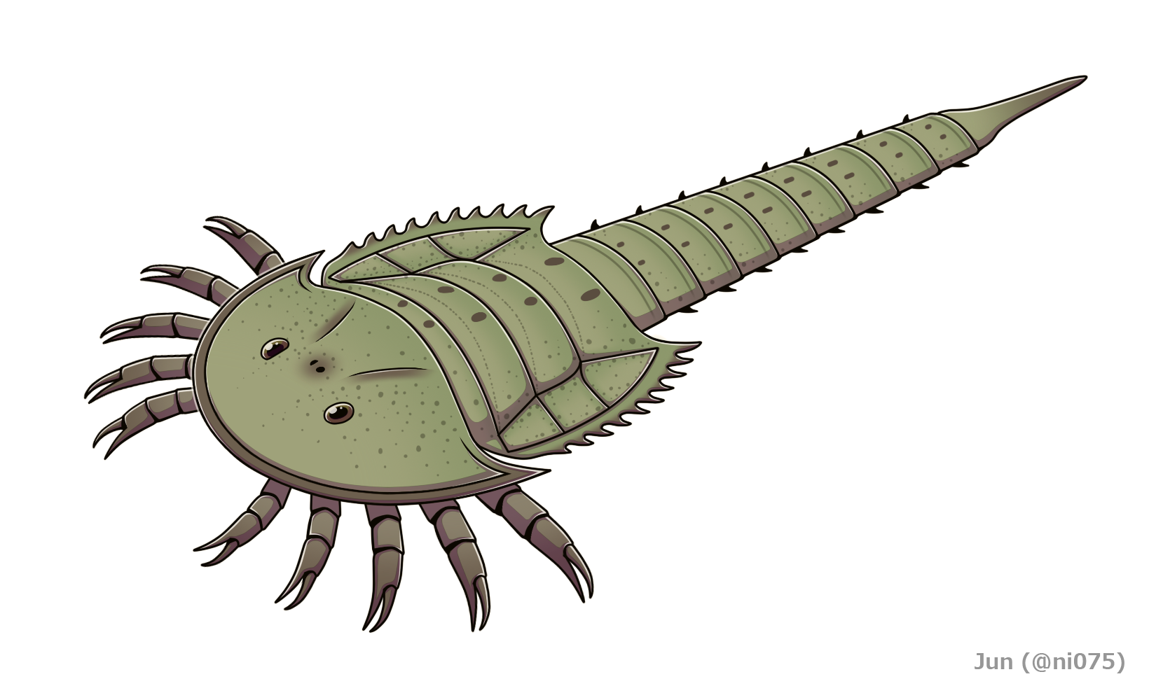 Reconstruction of Chasmataspis laurencii, an ordovician chasmataspidid. The reconstruction of the 5 prosomal appendage pairs in subequal morphology is conjectural.